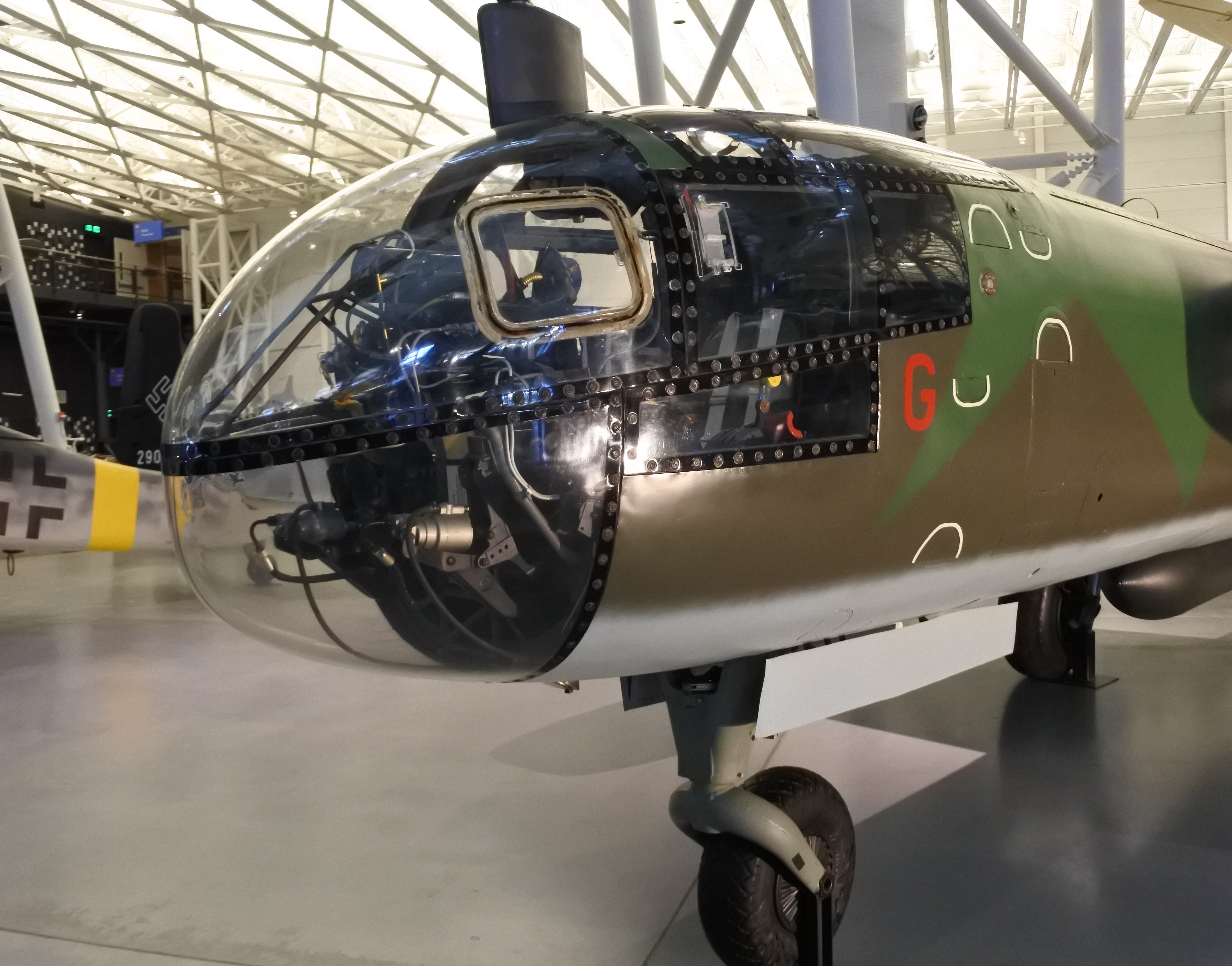 Arado Ar 234 B-2 nose at the Steven F. Udvar-Hazy Center.